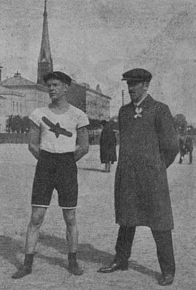 Finnish sprinter Torsten Wendelin (1892-1961) and the Scottish coach George Easton (1883-1966) in 1909.